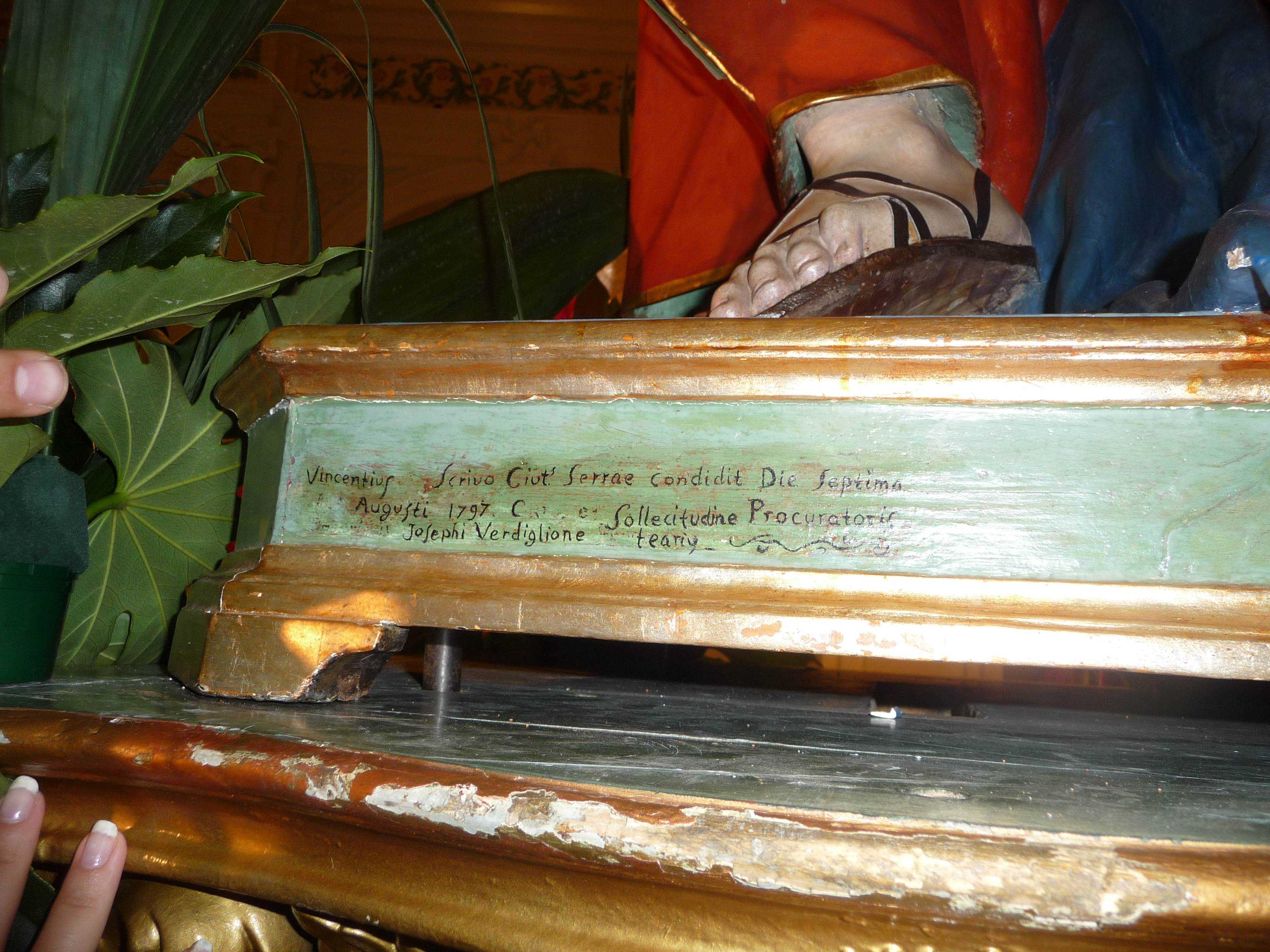 sign of calabrian sculpure Vincesco Scrivo on Santo Salvatore's statue of Pazzano